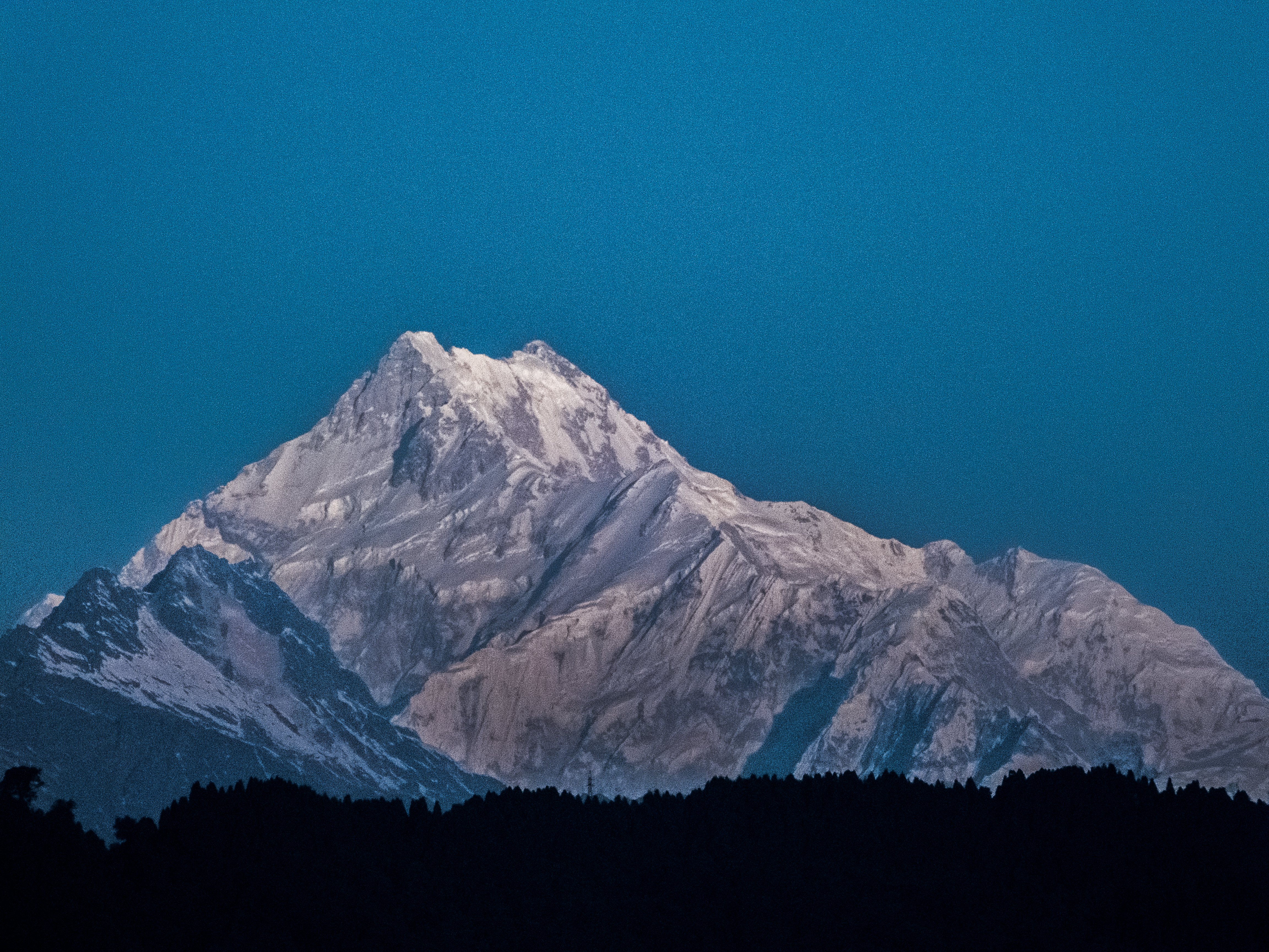 Clicked from Tibet Road.